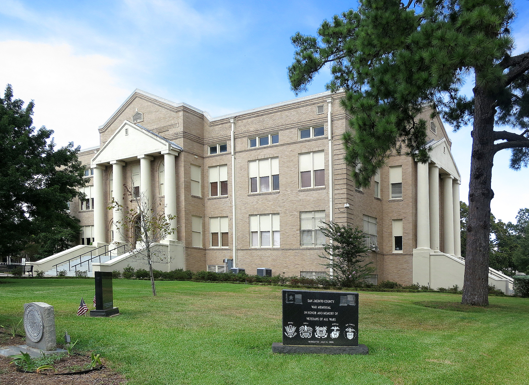 This is the Jacinto City Texas Courthouse located in Coldspring